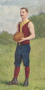 Australian rules footballer Gerald Brosnan (born 1877)